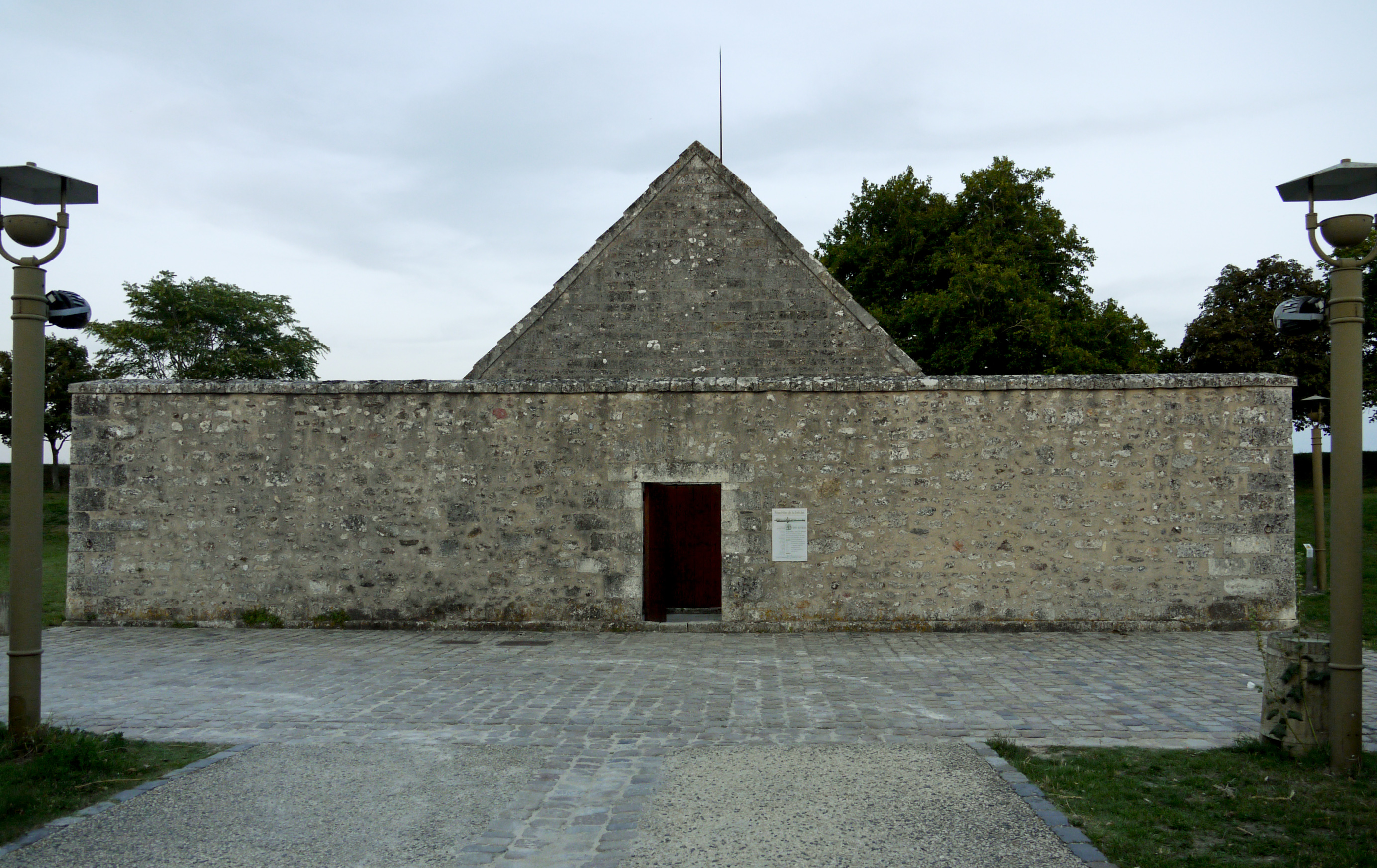 Brouage, gun powder store. France.